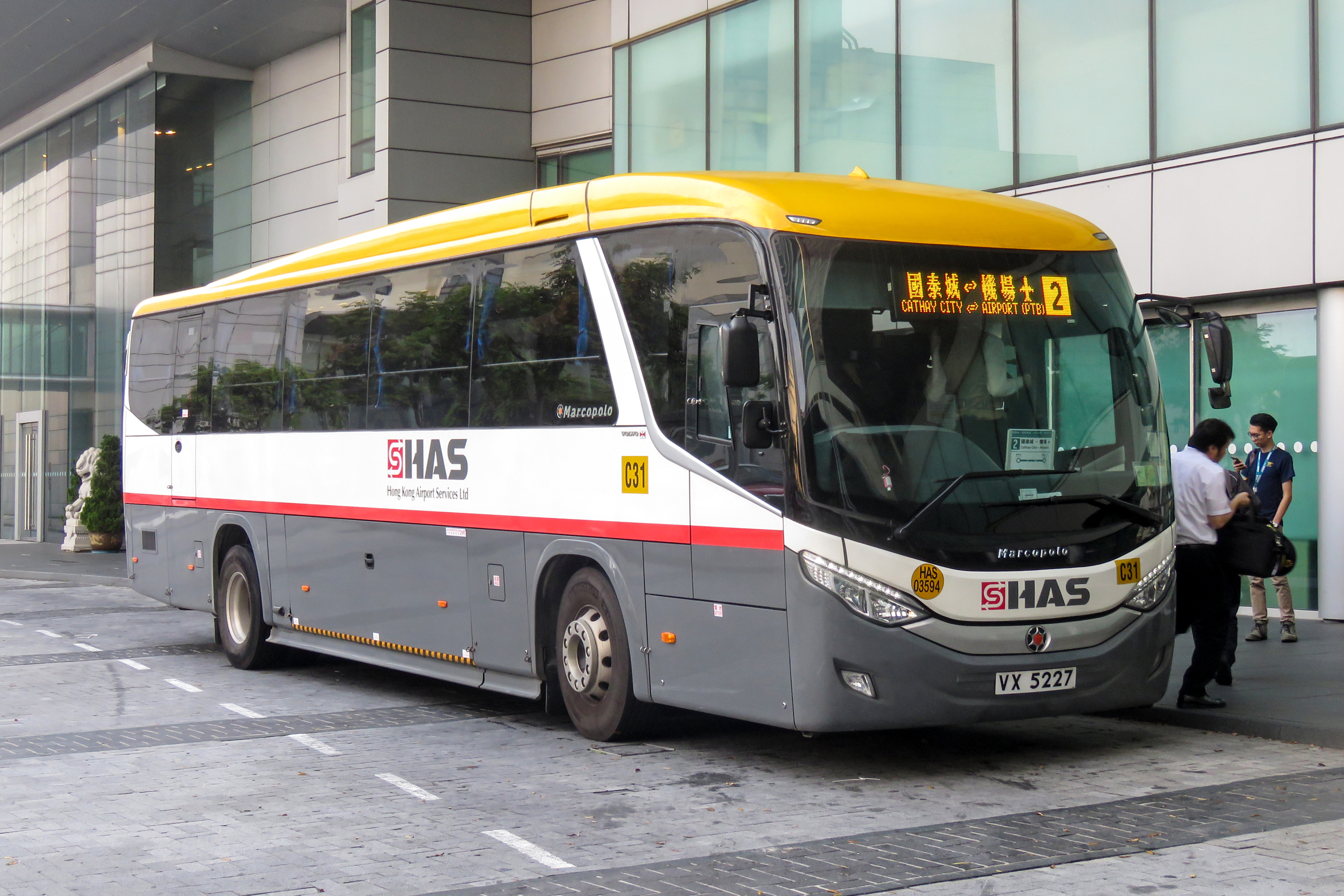 Volvo B8R with Marcopolo Audace 800 body. Hey did I see KCR logo?